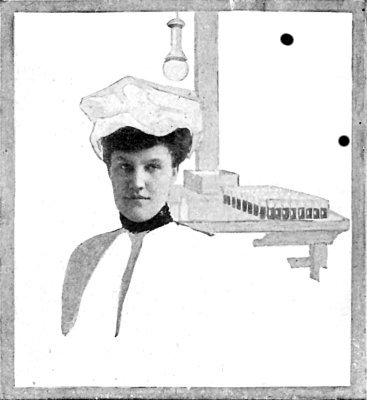 Photograph of Bessie Van Vorst wearing the costume of the pickle factory while conducting an undercover investigation